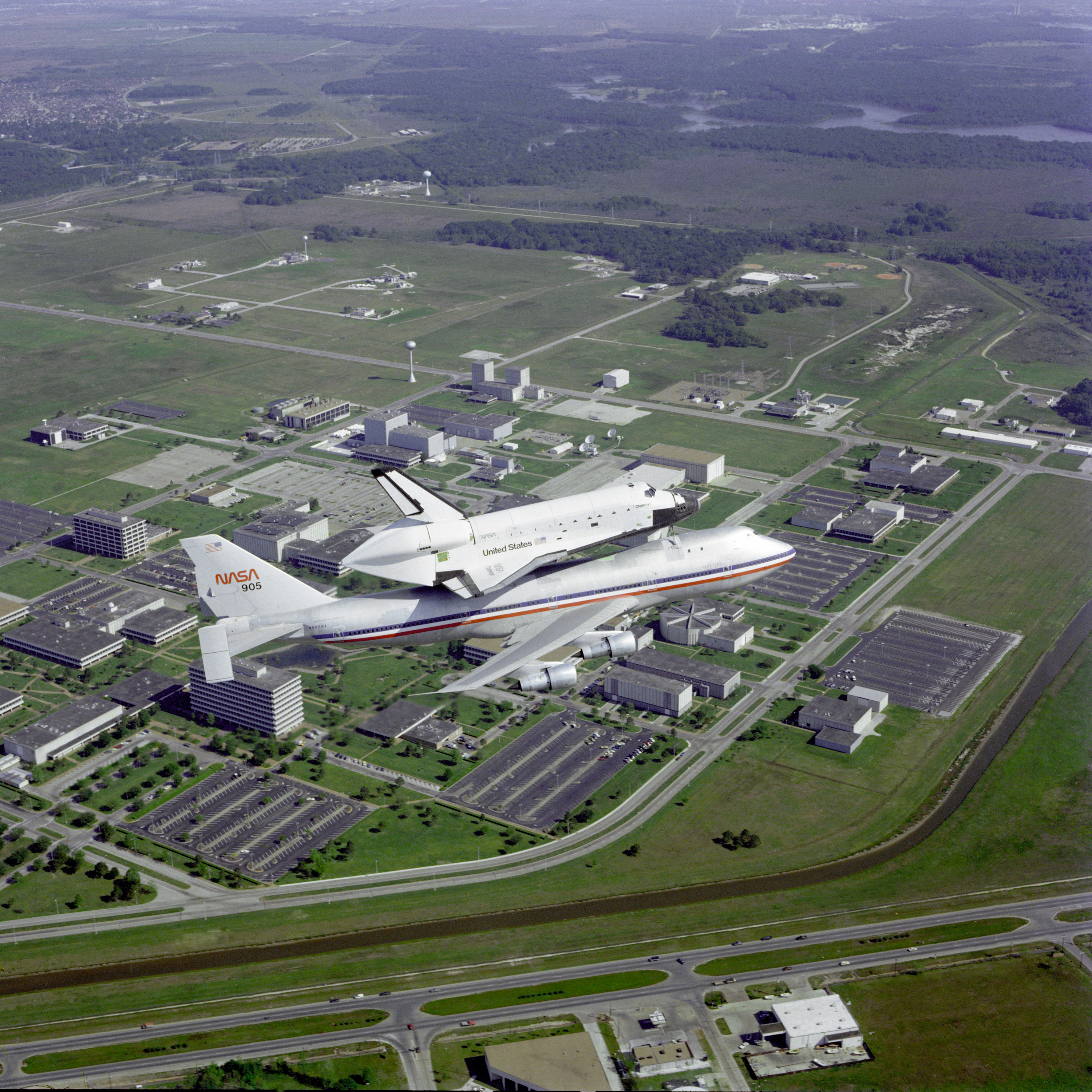 View of the Shuttle Challenger atop the Shuttle Carrier Aircraft (SCA), NASA-905, during its return to Kennedy Space Center (KSC) and flyover of the Johnson Space Center (JSC) at southeast edge of Houston on Saturday, April 9, 1983. Features a NASA Boeing 747-100.